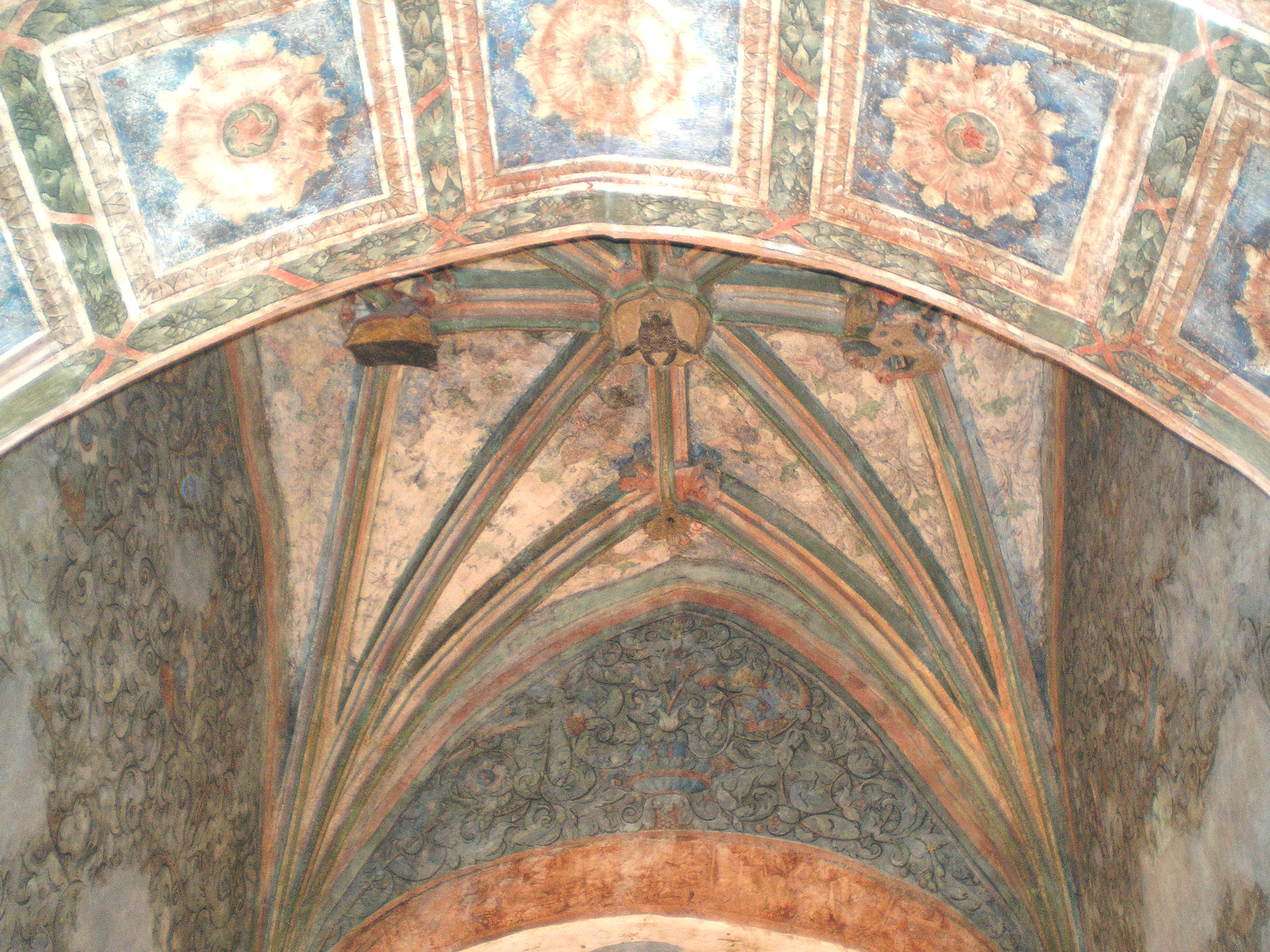 Pardubice castleoverhead of bow-window